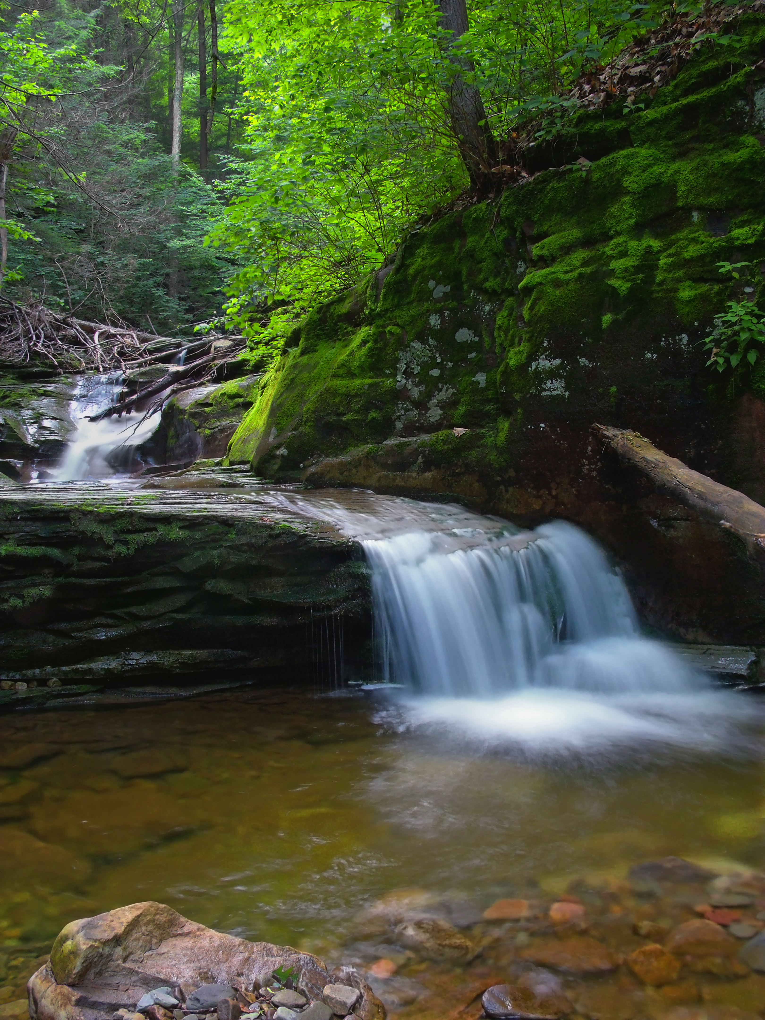 State Game Land 13, Sullivan County. Early-winter scenes here and here.